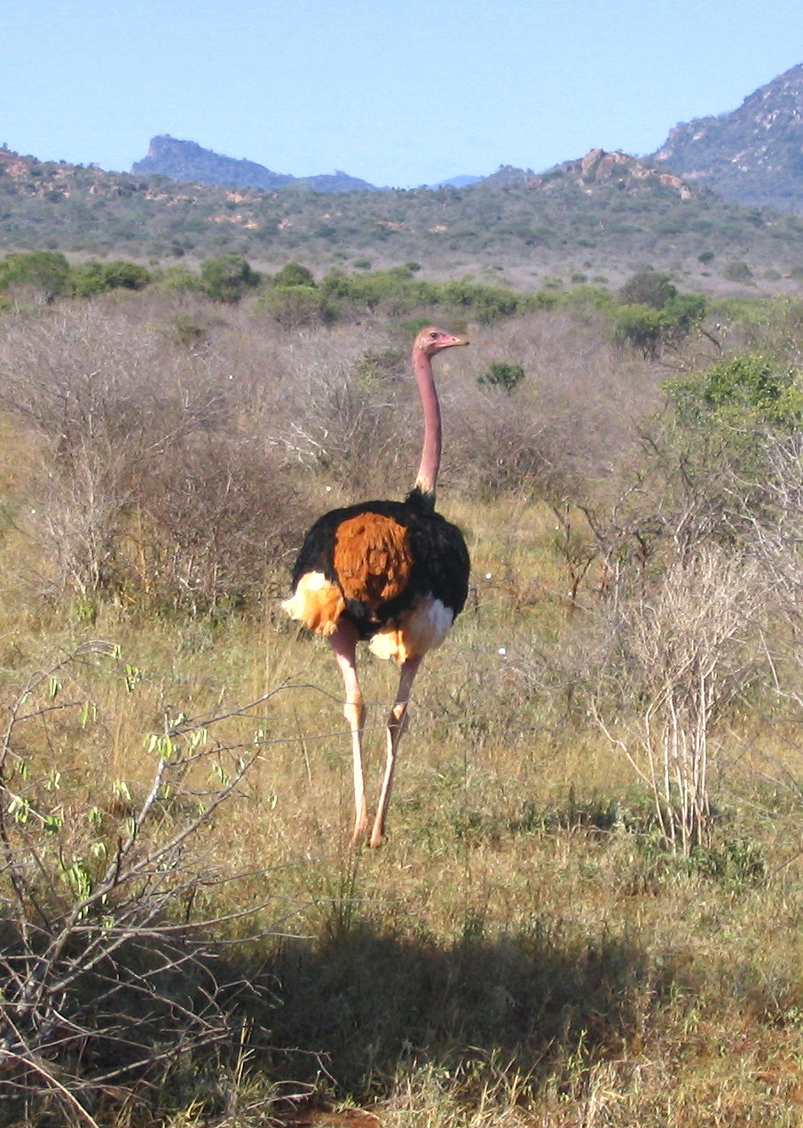 Struthio camelus massaicus (Masai Ostrich) male in Tsavo West National Park, Kenya. The S. c. massaicus subspecies can be identified by the pink neck of individuals, and the male sex by the black feathers.